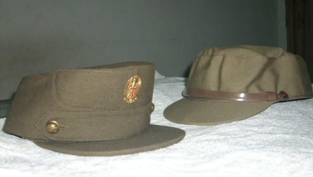 Spanish ros-shaped military caps: at left, walking out cap (gorra montañera) m. 1958; at right, field cap (gorra de faena) m. 1973